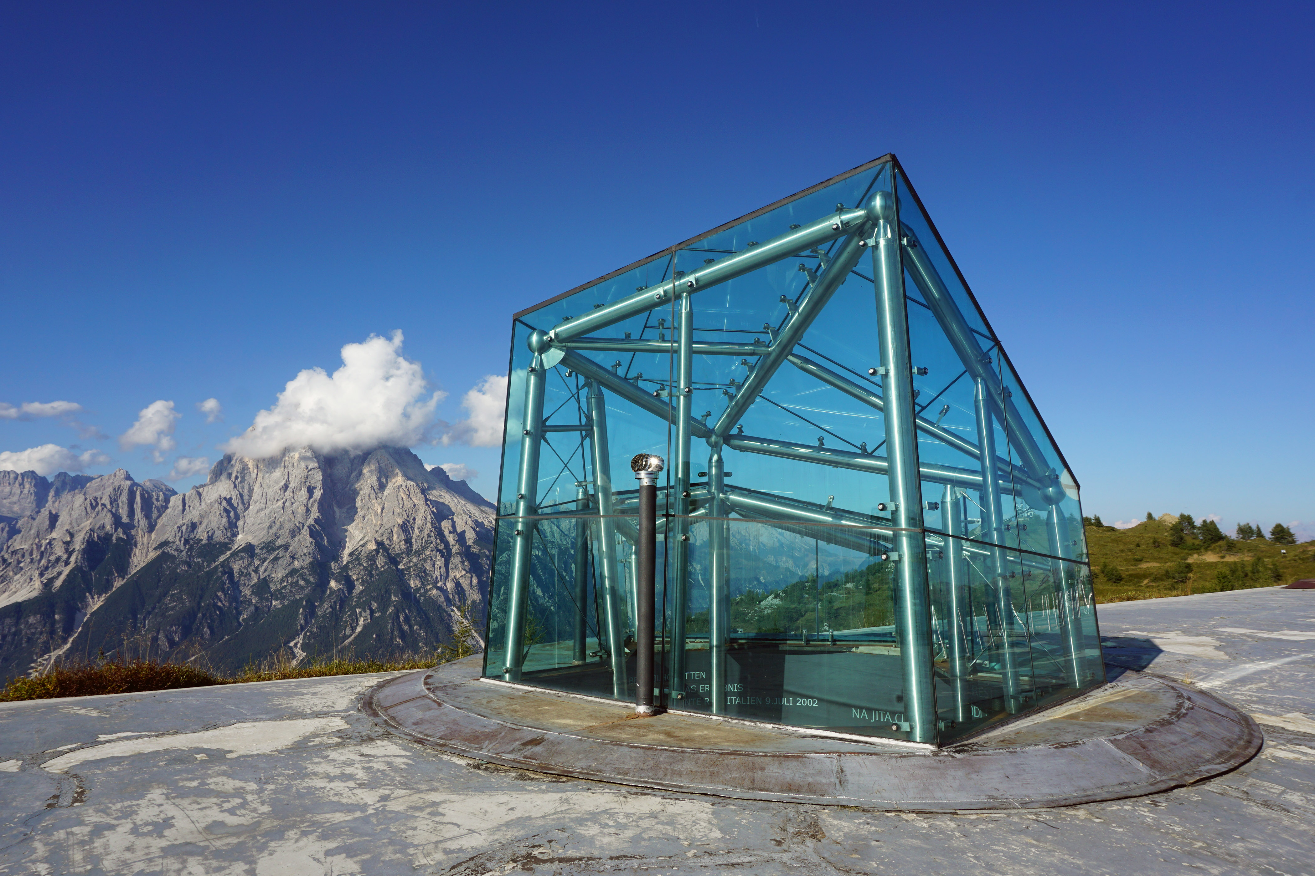 Messner Mountain Museum Dolomites in Monte Rite.